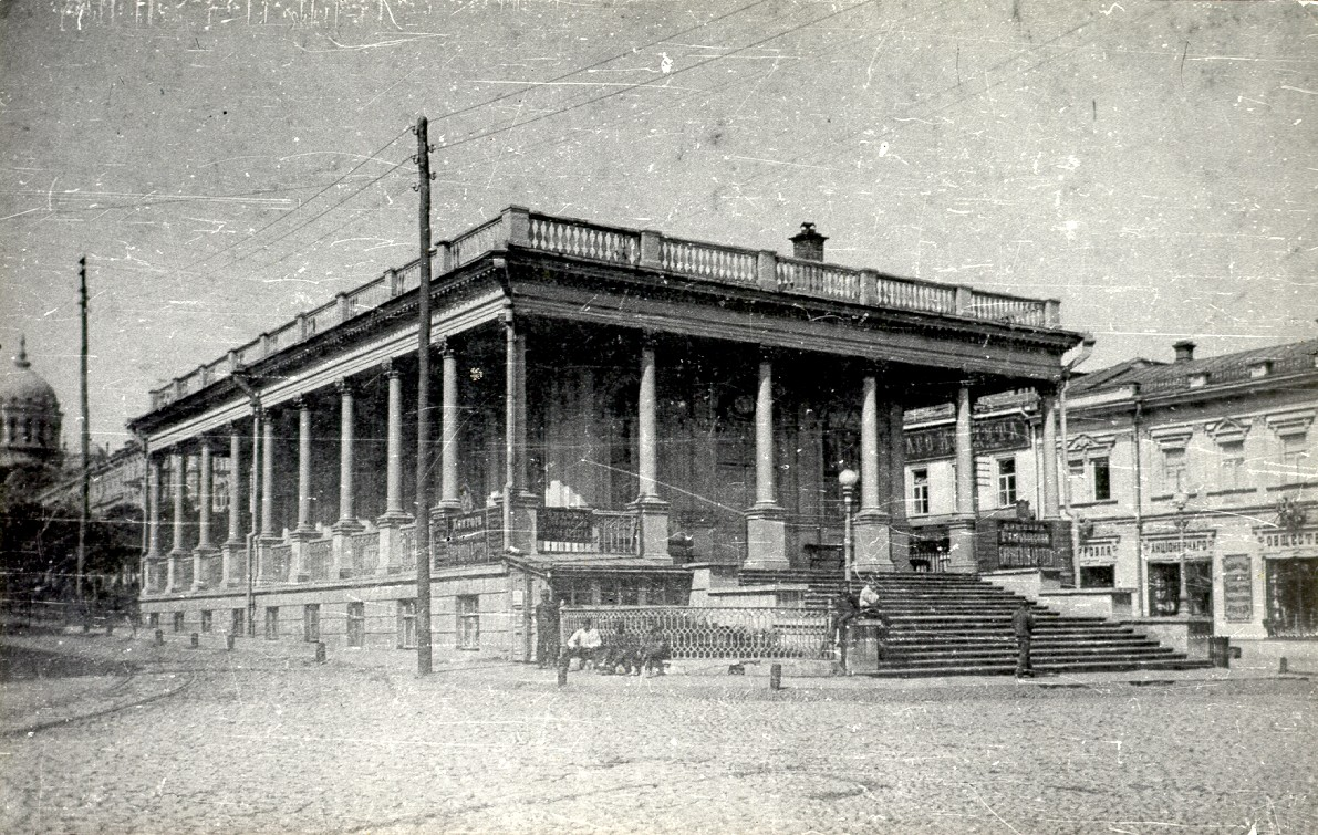 Building of Kharkiv's bourse, Kharkiv, Ukraine, 1914